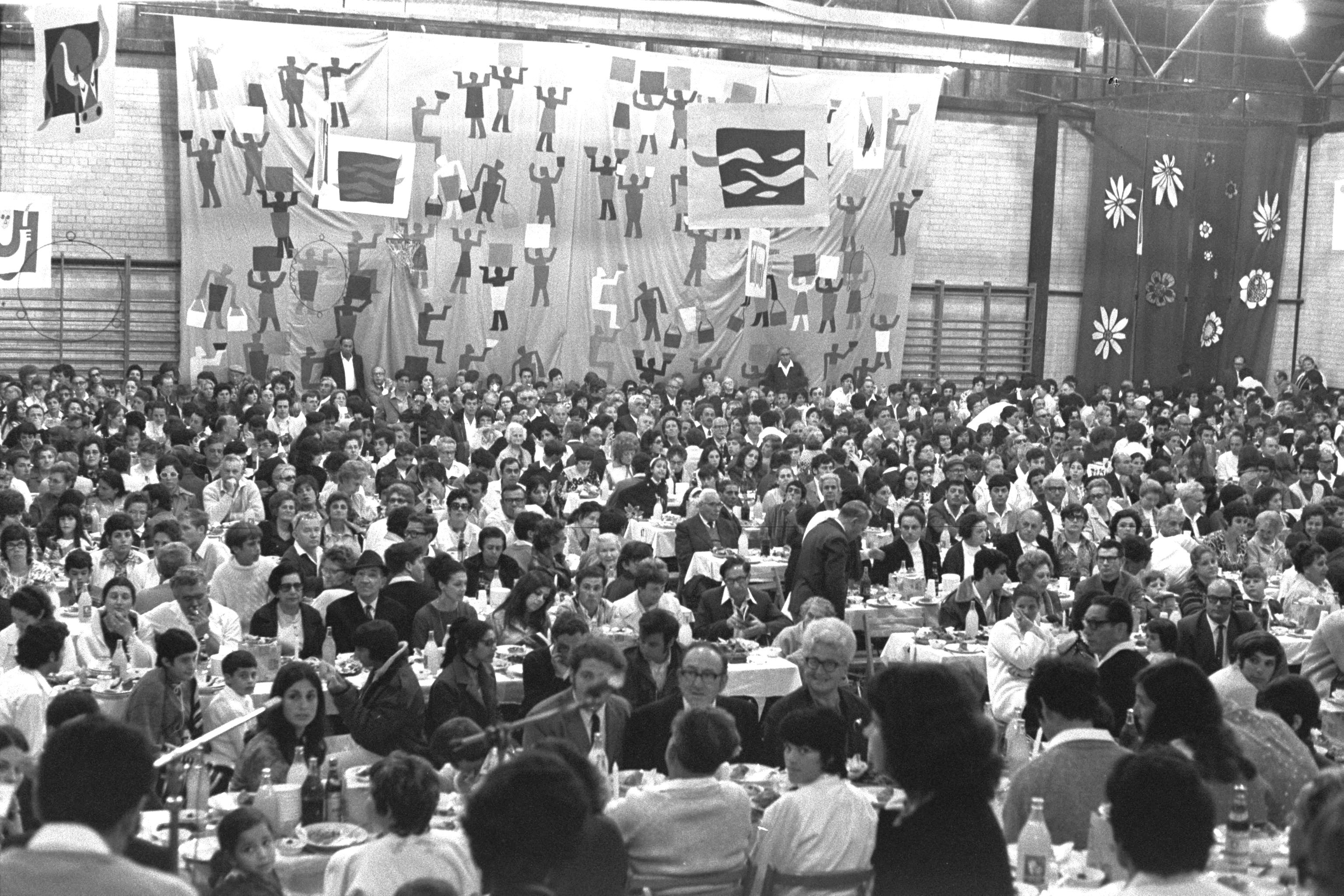 A Passover Seder for 1,500 people held in the decorated sports hall at Kibbutz Na'an.